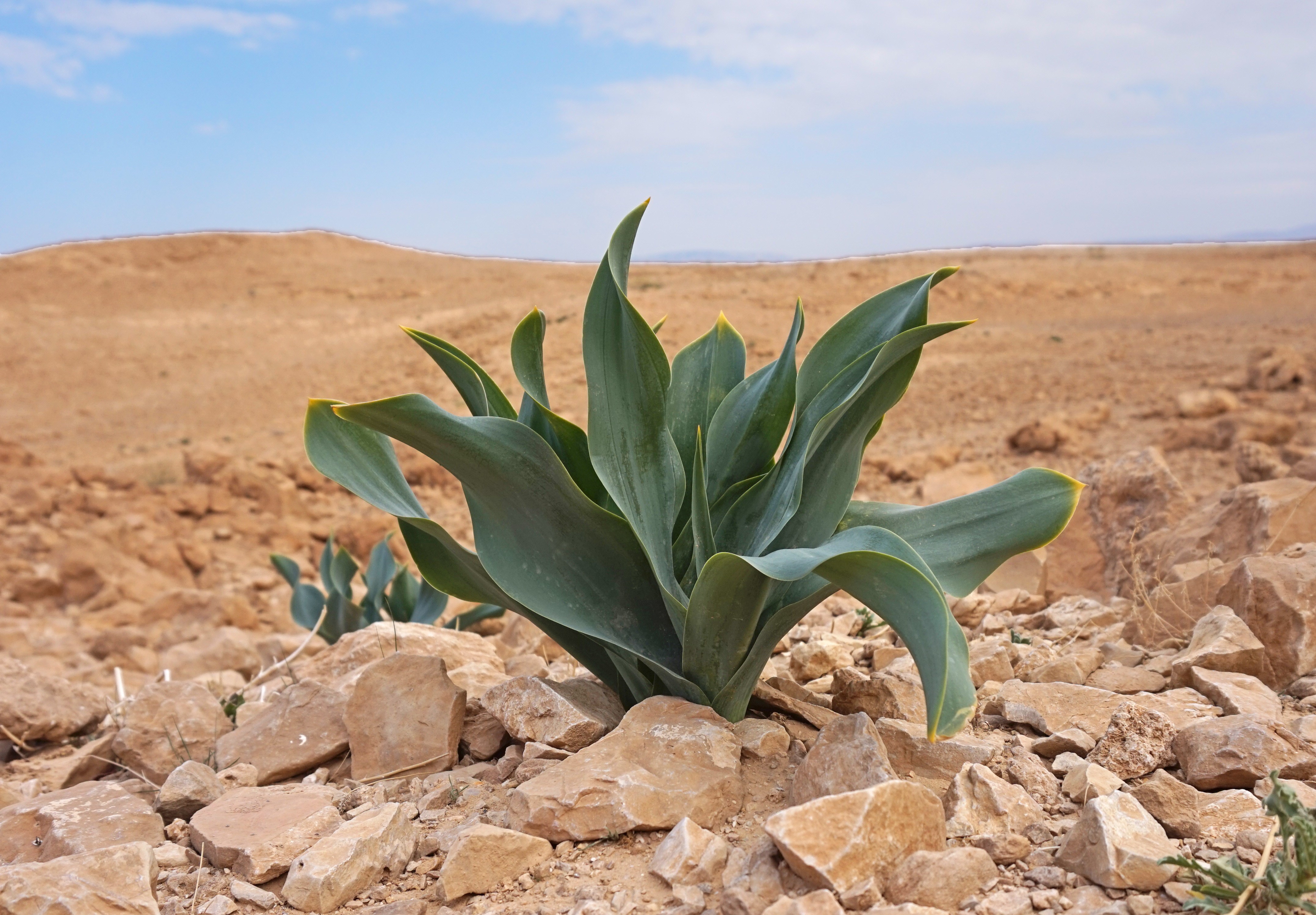 Plant in a desert in Israel.This photograph was taken with a Sony ILCE-5000